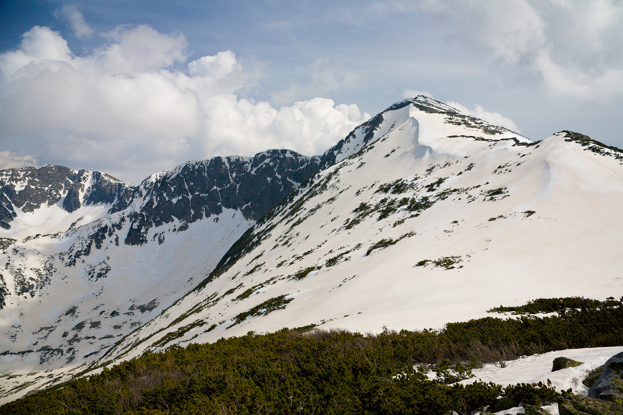 Pirin - a summit (2593) in Pirin mountain, Bulgaria.